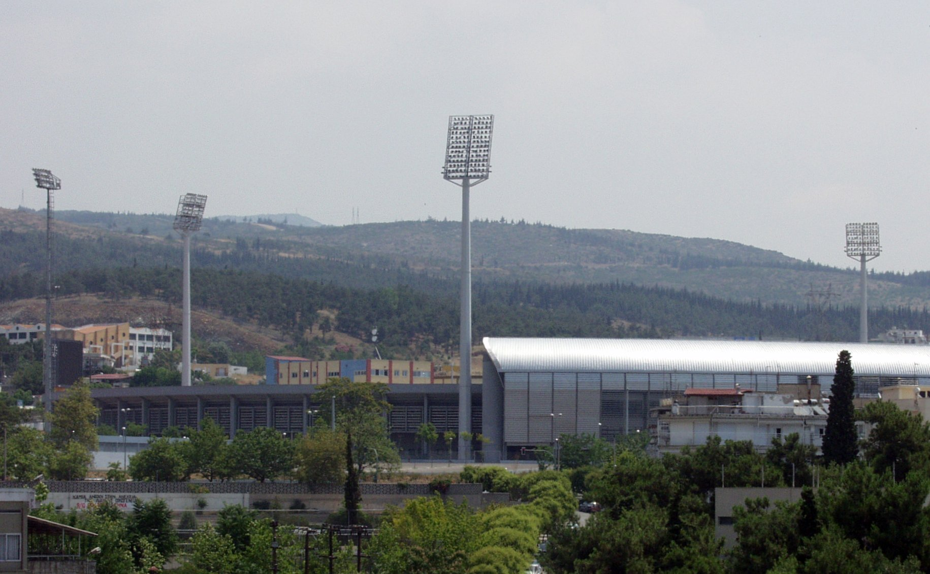 Kaftantzogleio stadium, Thessaloniki